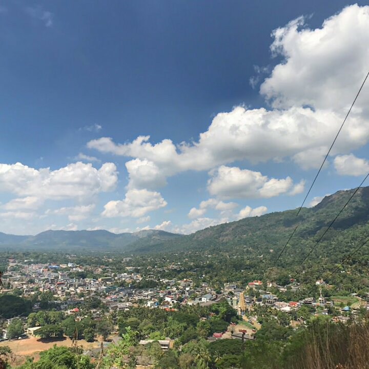 Matale city